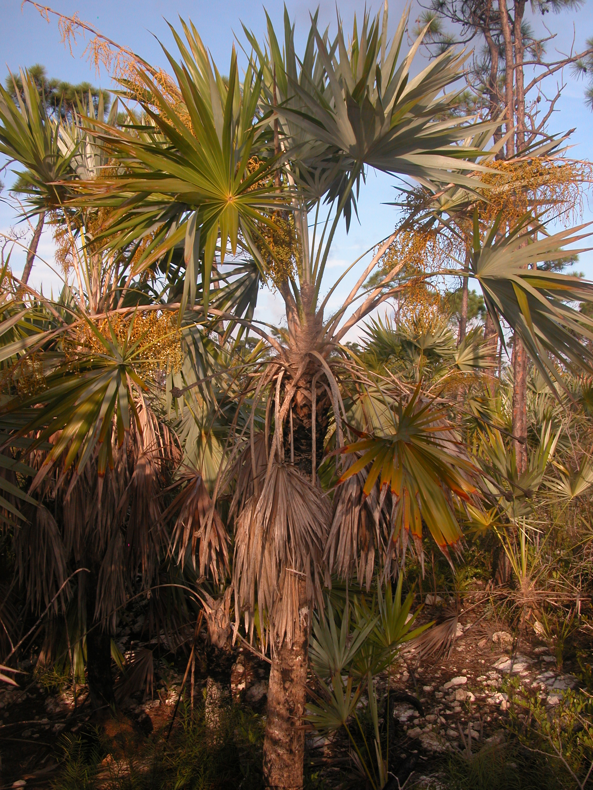 Key Thatch Palm, Leucothrinax morrisii, in the Florida Keys.